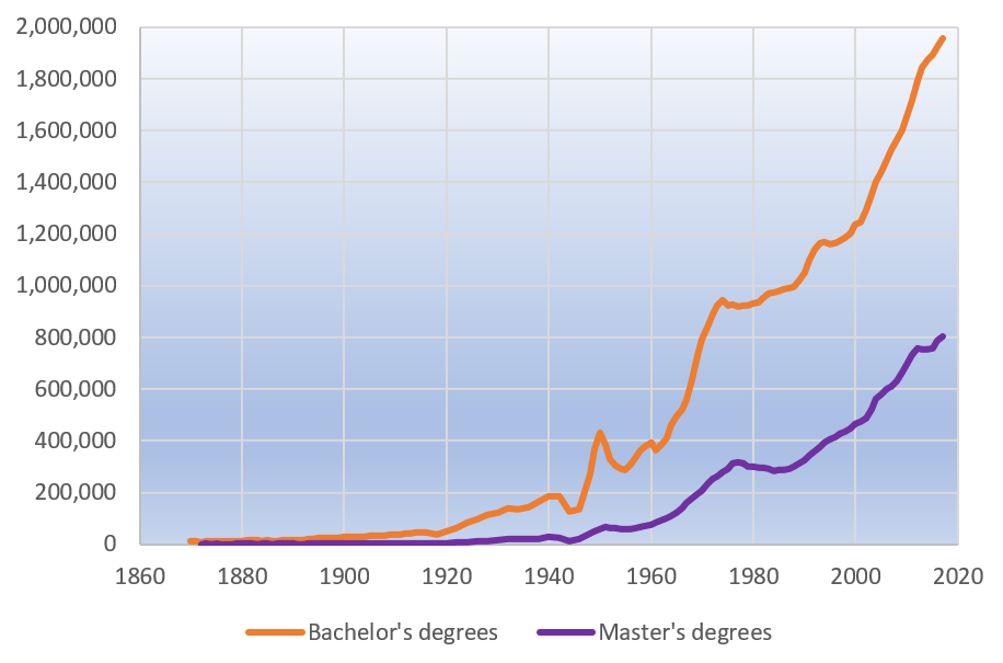 newly granted degrees per year; data